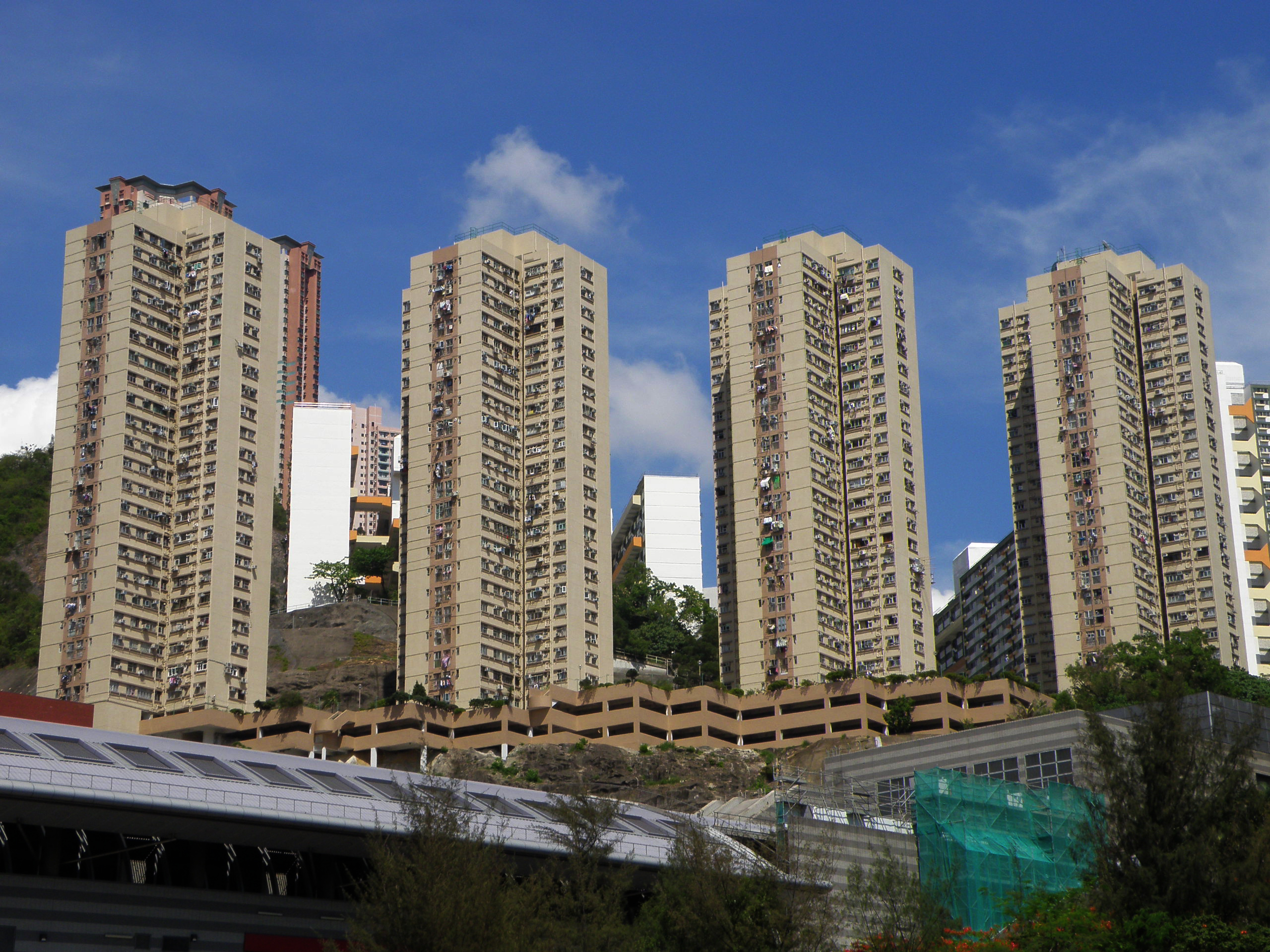 Yuet Lai Court in Lai King, Hong Kong.